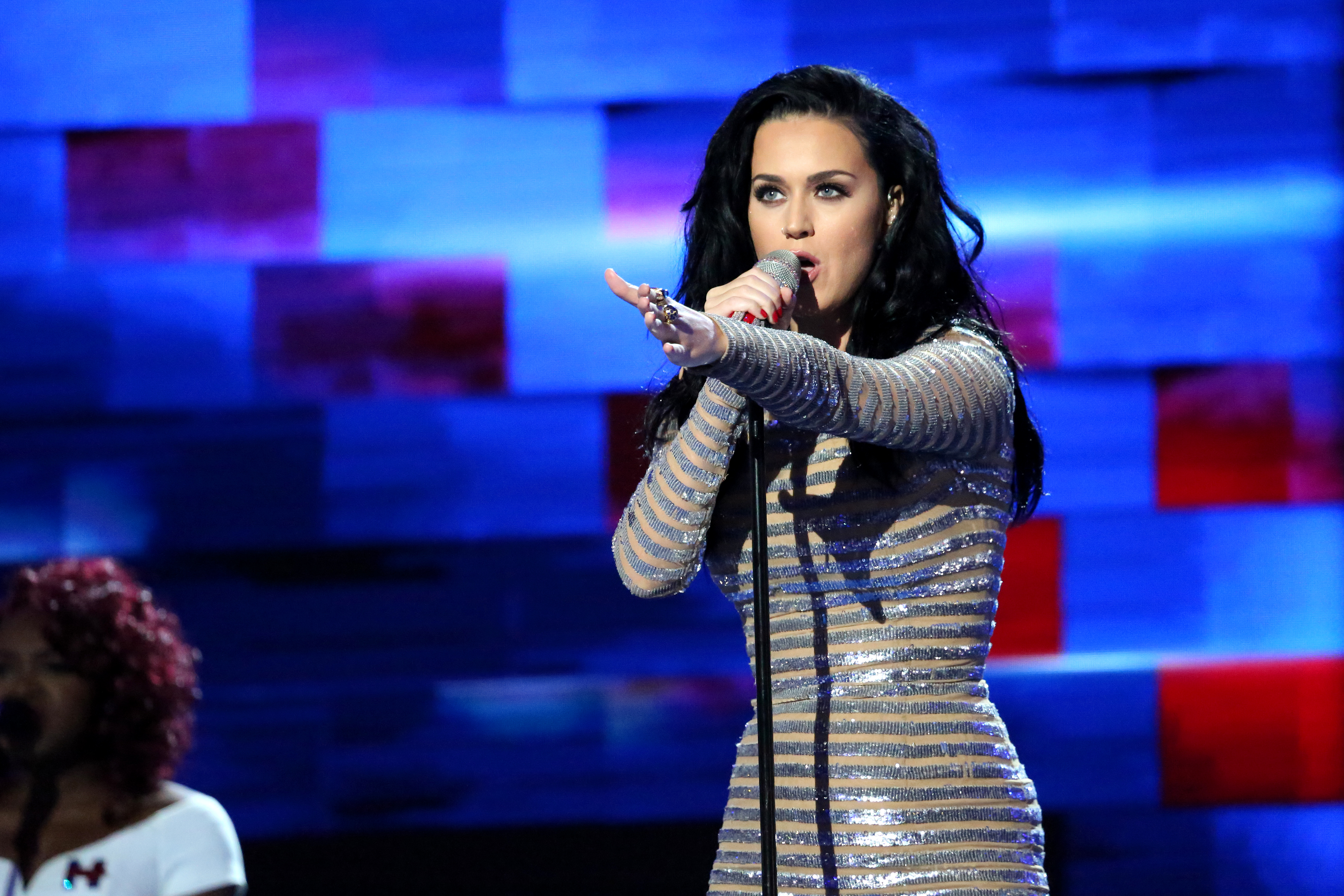 Katy Perry sings to the Democratic National Convention in Philadelphia, July 28, 2016. (A. Shaker/VOA) )